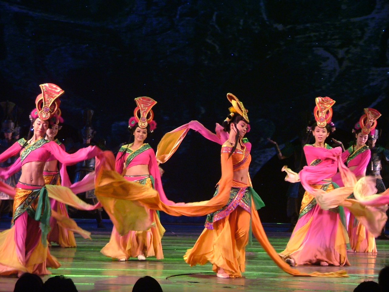 Play in Beijing Theater, July 2007